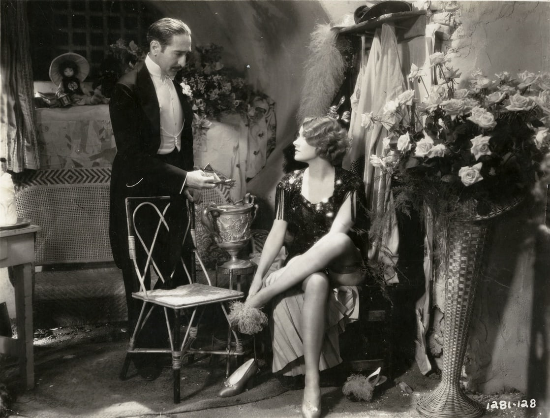 Morocco (film) 1930. Josef von Sternberg, director. Left to right: Adolphe Menjou, Marlene Dietrich. Paramount Pictures.